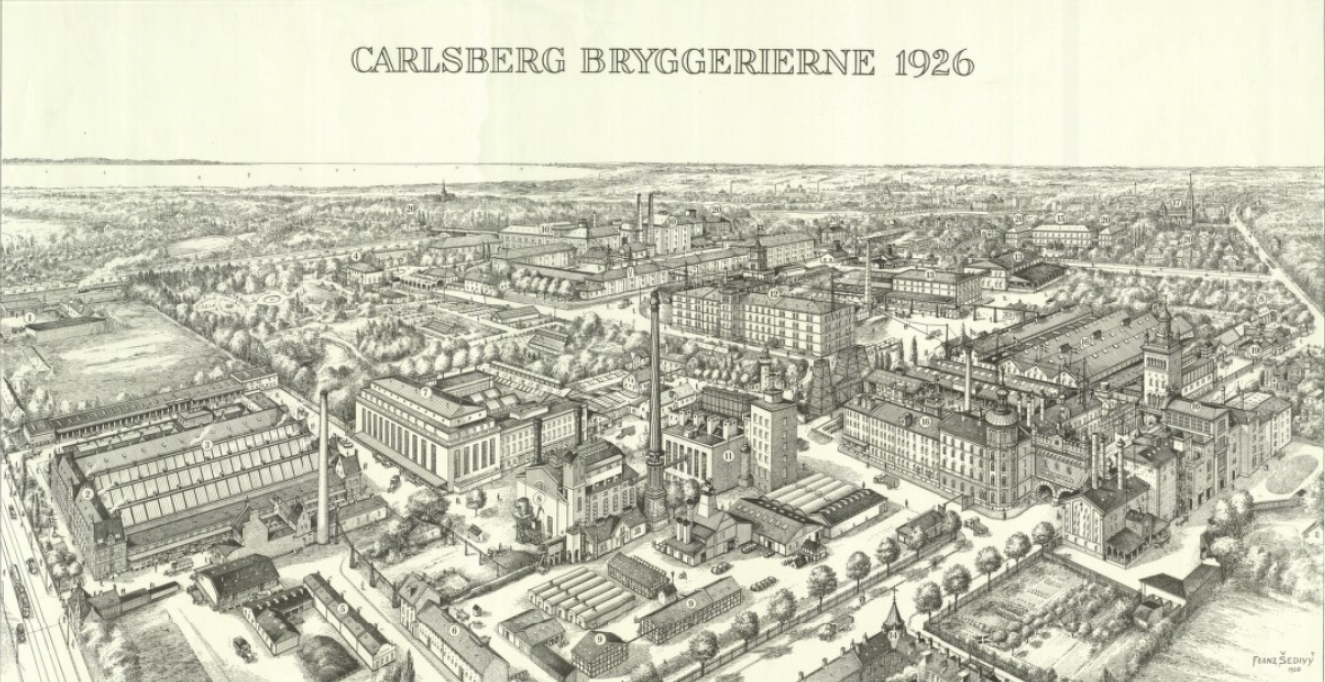 Carlsberg in Valby, Denmark